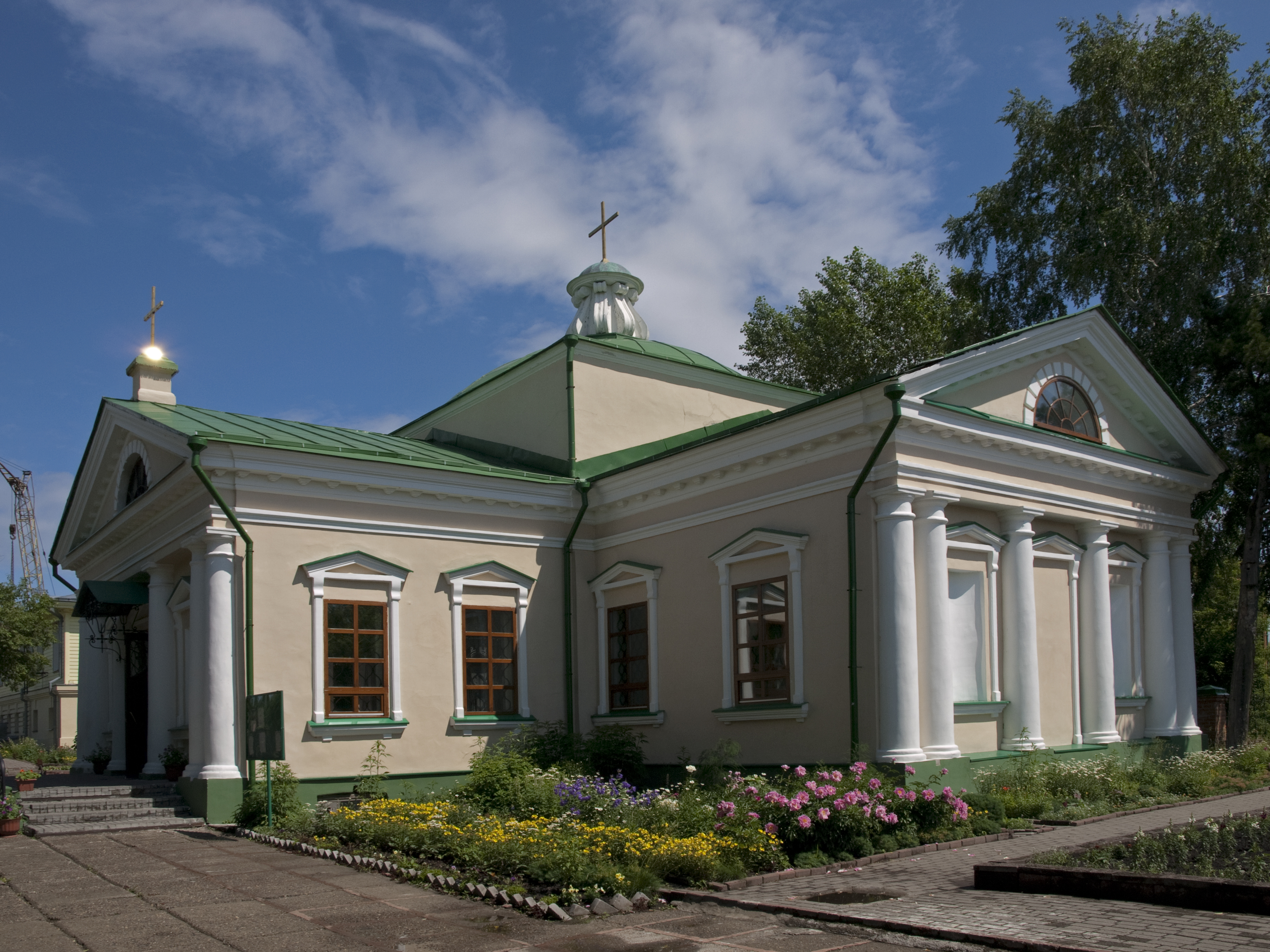 Catholic church in Tomsk